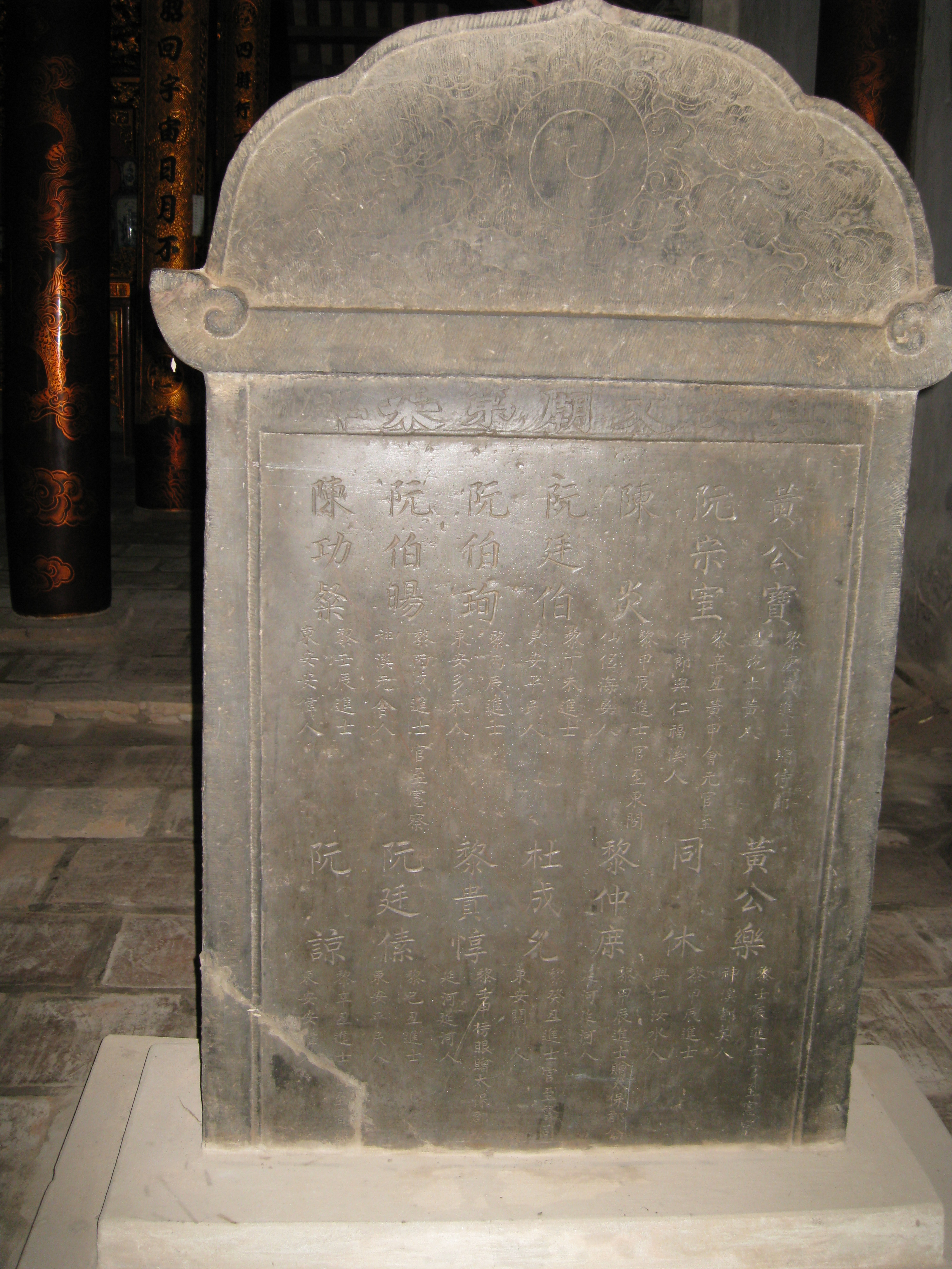 A stelae inside Temple of Literature, Hung Yen.